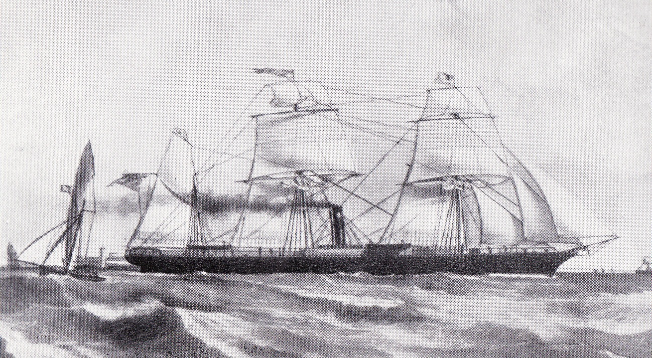 Inman Line steamship City of Glasgow, built in 1850 and lost in 1854